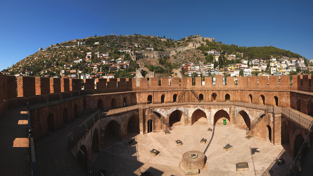 Top of Kızıl Kule (Red Tower) and the hill of the Alanya Castle. Stitch of 5 vertical images.